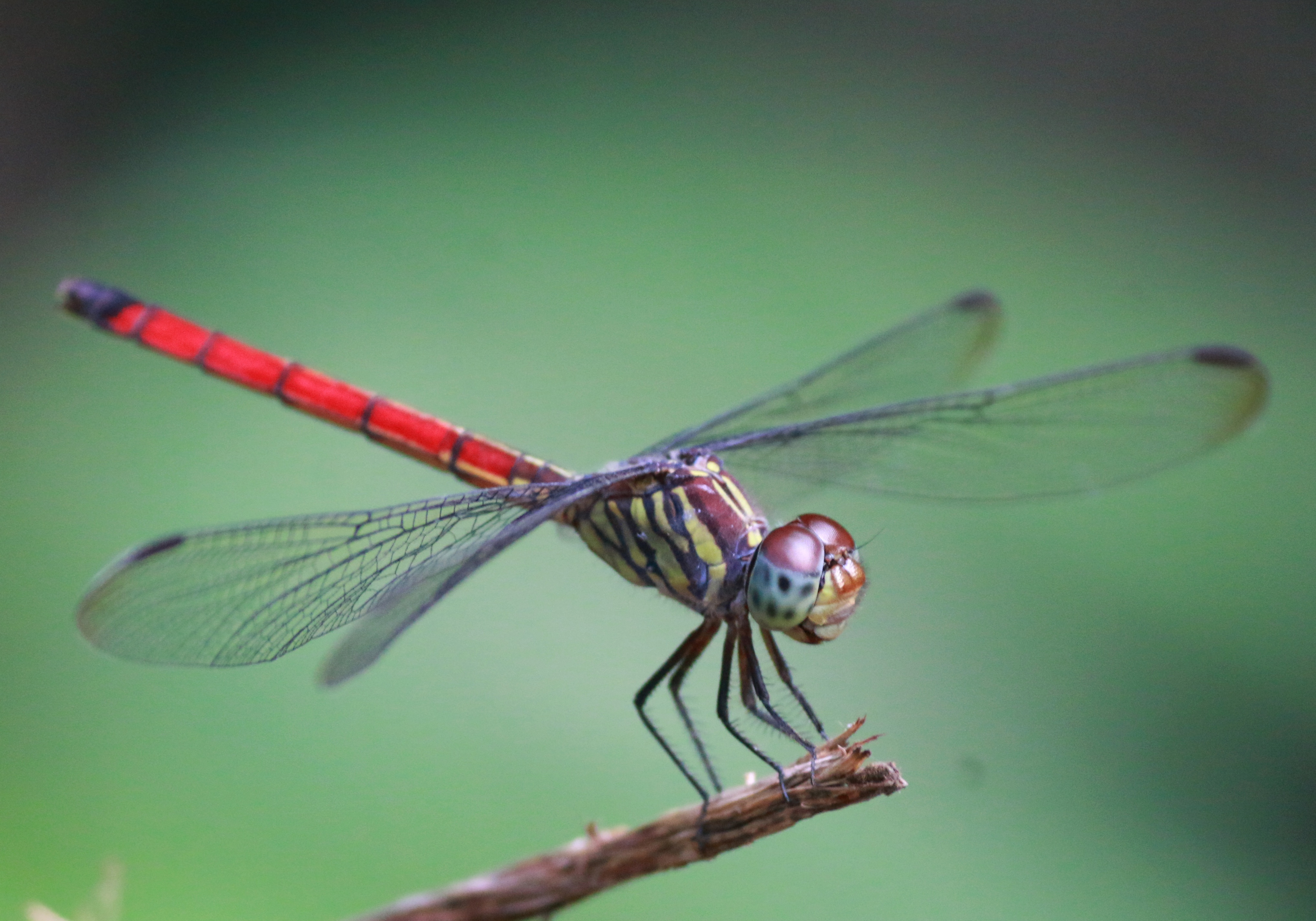 Lathrecista asiatica ,asiatic blood tail